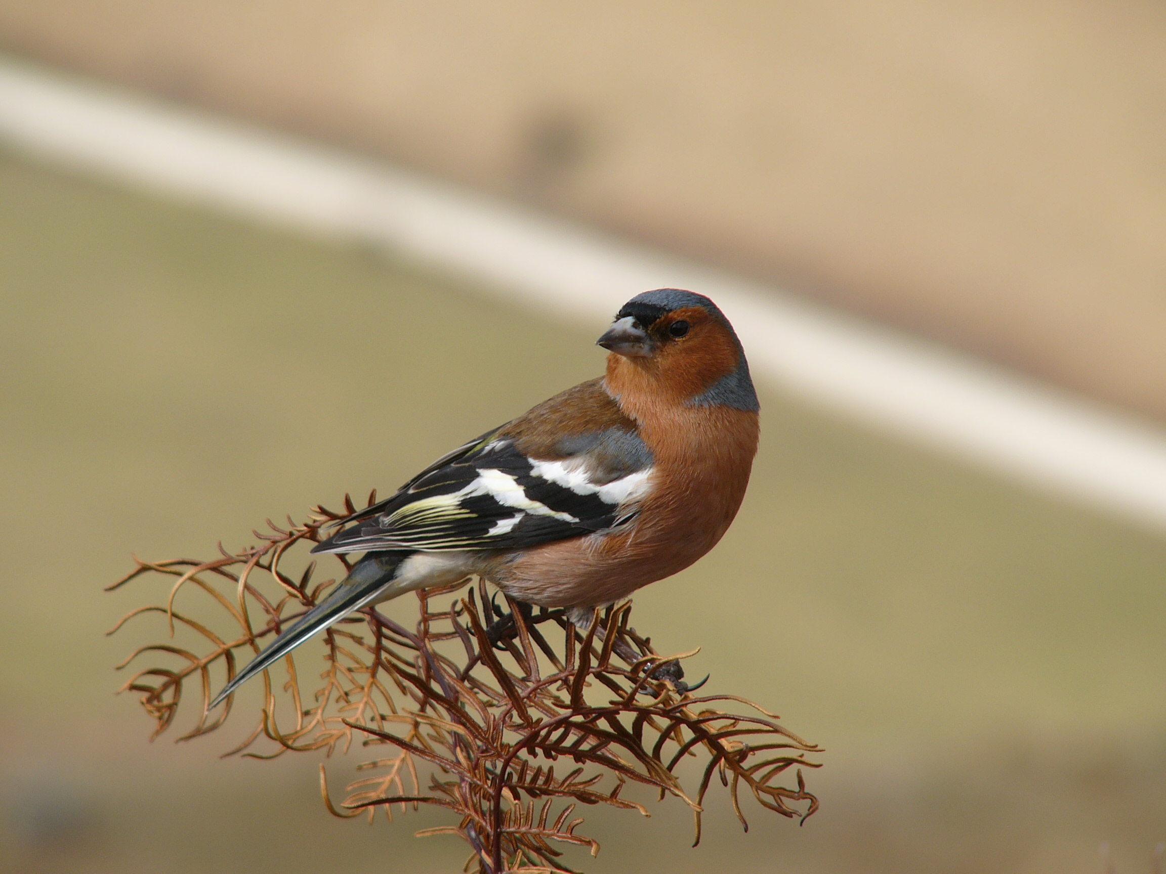 This finch was photographed on a walk, while in Wanaka, a town in the south Island of New Zealand.